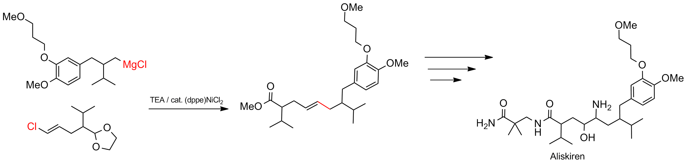 Synthesis of hyperthyroid drug aliskiren